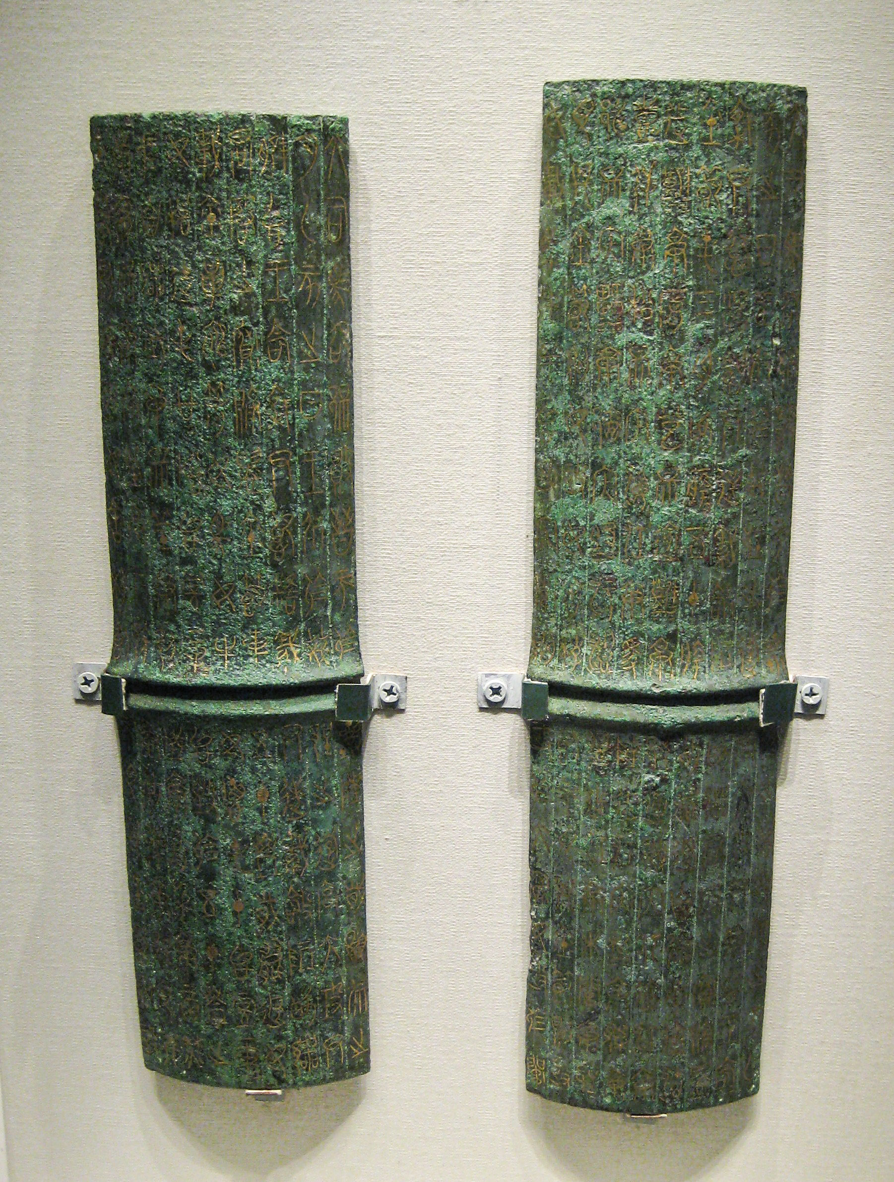 Bronze tallies with inscriptions inlaid in gold from the Warring States Period, Chu State. Unearthed at Shouxian, Anhui Proince, 1957. From a set of five tallies issued in 323 BC by King Huai of Chu to a man named Qi, Lord of E. One tally is a permit to travel by land, the other a permit to travel by river.